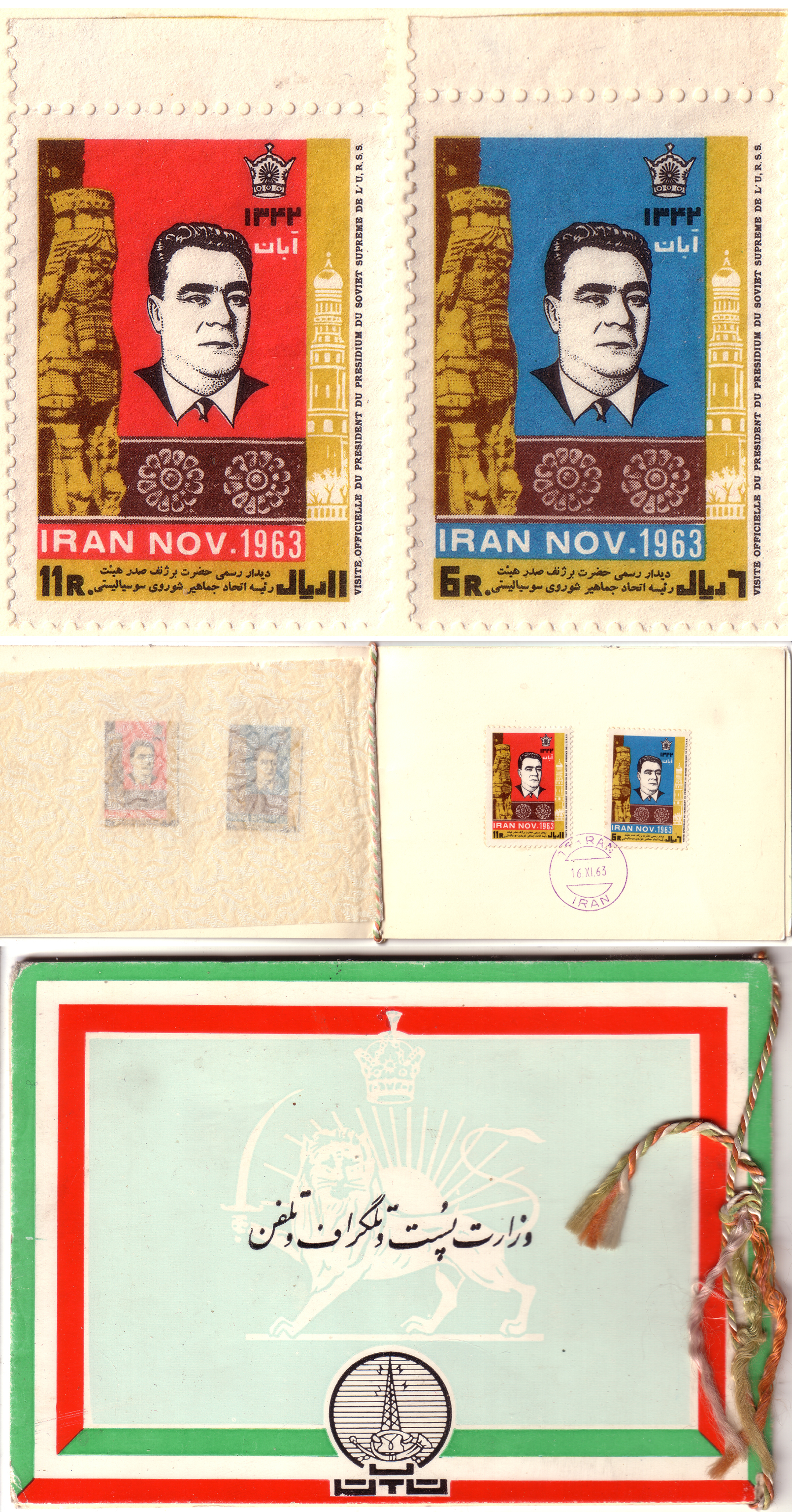 Postage stamps presentation booklet for limited edition government gift use of Iran, official visit of the Chairman of the Presidium of the Supreme Soviet of the USSR Leonid Brezhnev in Iran, november 1963. 6 and 11 rials, November, 16th, 1963 (Scott#1267 and 1268). The first image of Brezhnev on postage stamps all over the world